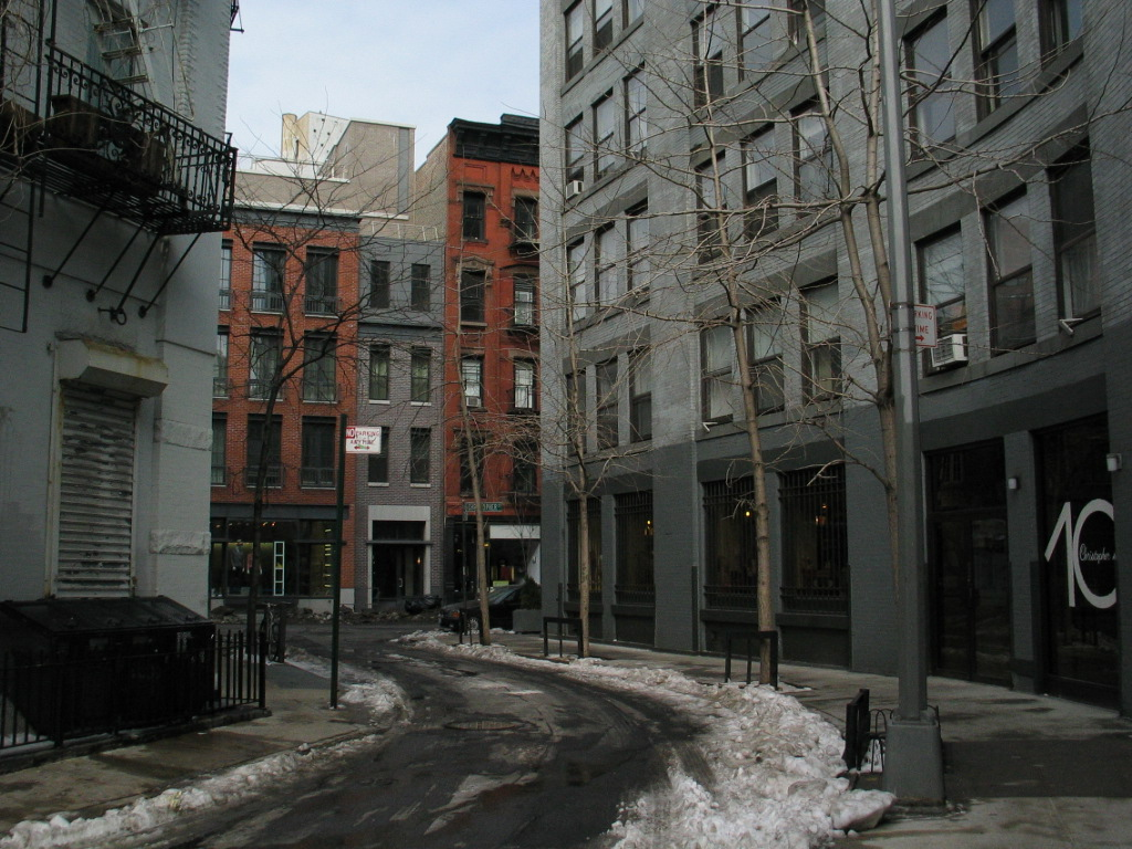 The northern end of the Gay street. Christopher street is seen.